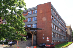 University of Silesia